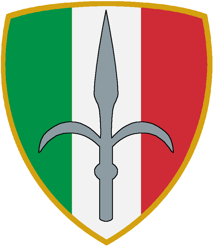 Coat of Arms of the Italian Army Trieste Troop Command